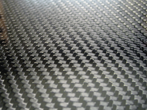 Carbon fiber laminated sheet. Raw carbon fiber fabric material is processed together with epoxy resin or other resin systems. The raw carbon fabric and resin system are procesed together using heat and pressure to produce a very high quality sheet laminate material. The completed carbon fiber sheet posesses very high strength properties that can be greater than metals. The finished sheet is however extremely light weight, weighing a fraction of its metal counterpart.